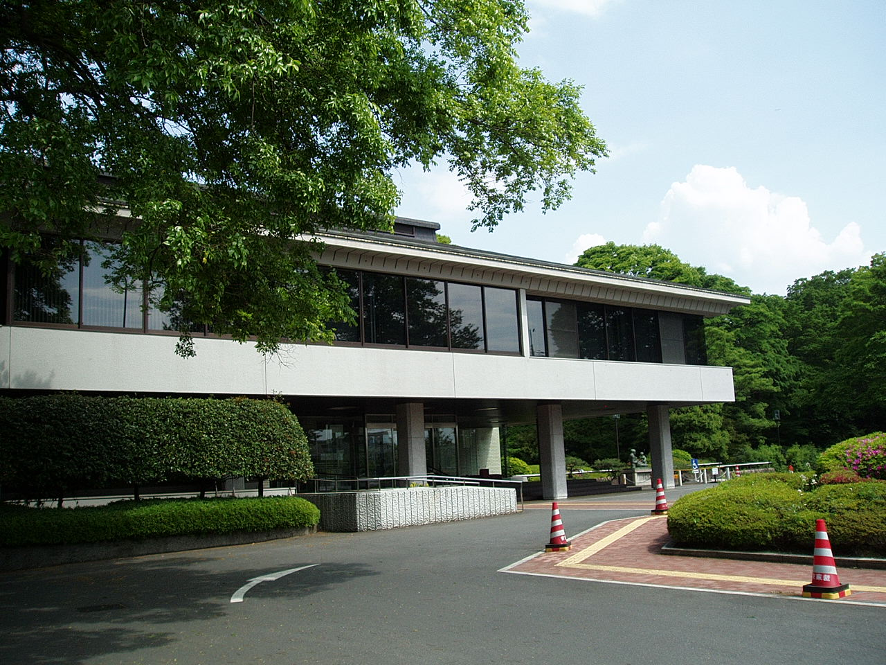 The headquarters of Kyoto Family Court.Located in Sakyō-ku, Kyoto.